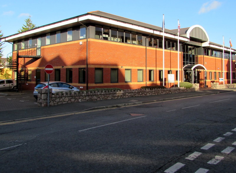 National Assembly for Wales office in Colwyn Bay